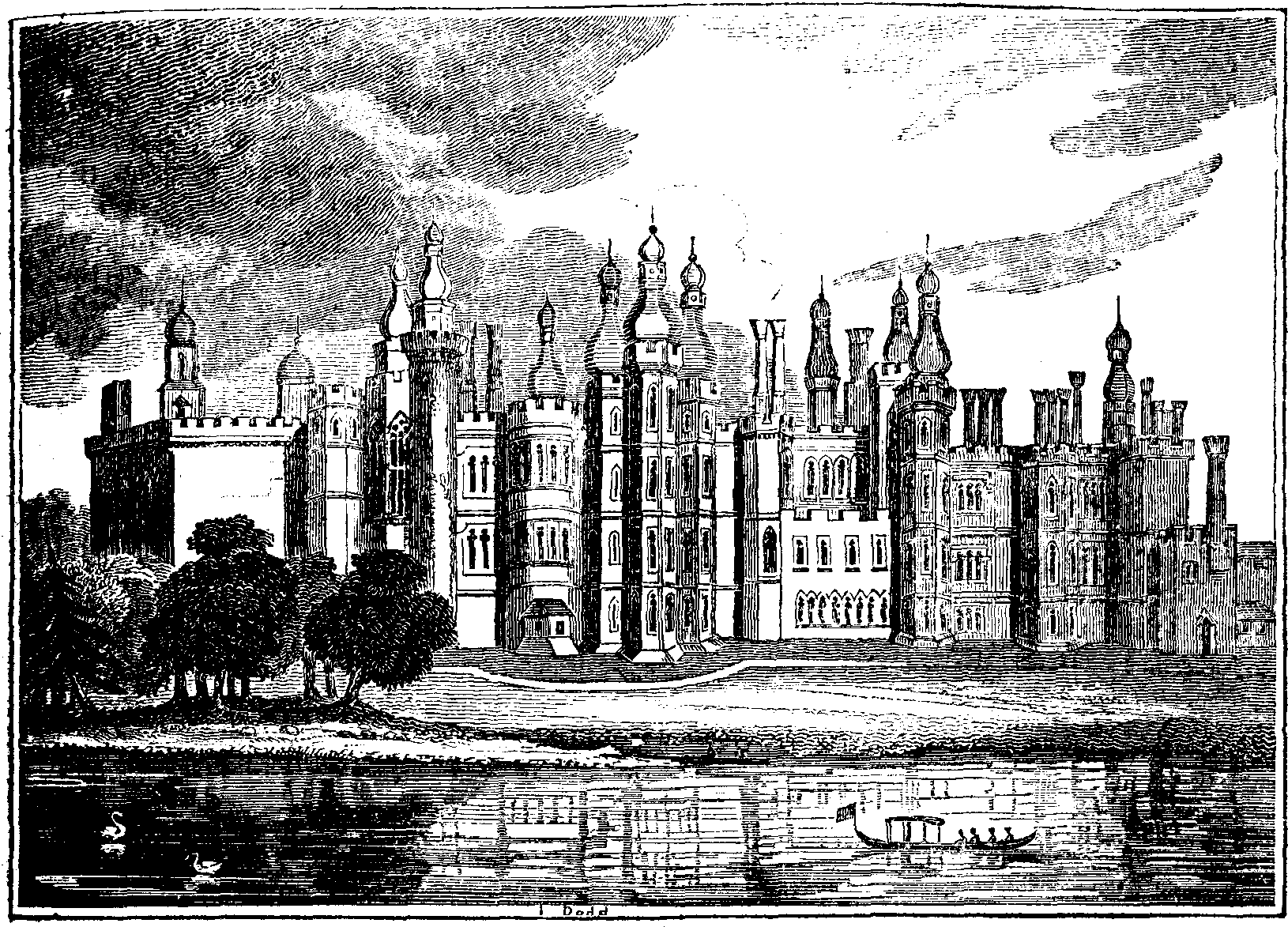 Richmond Palace 1828